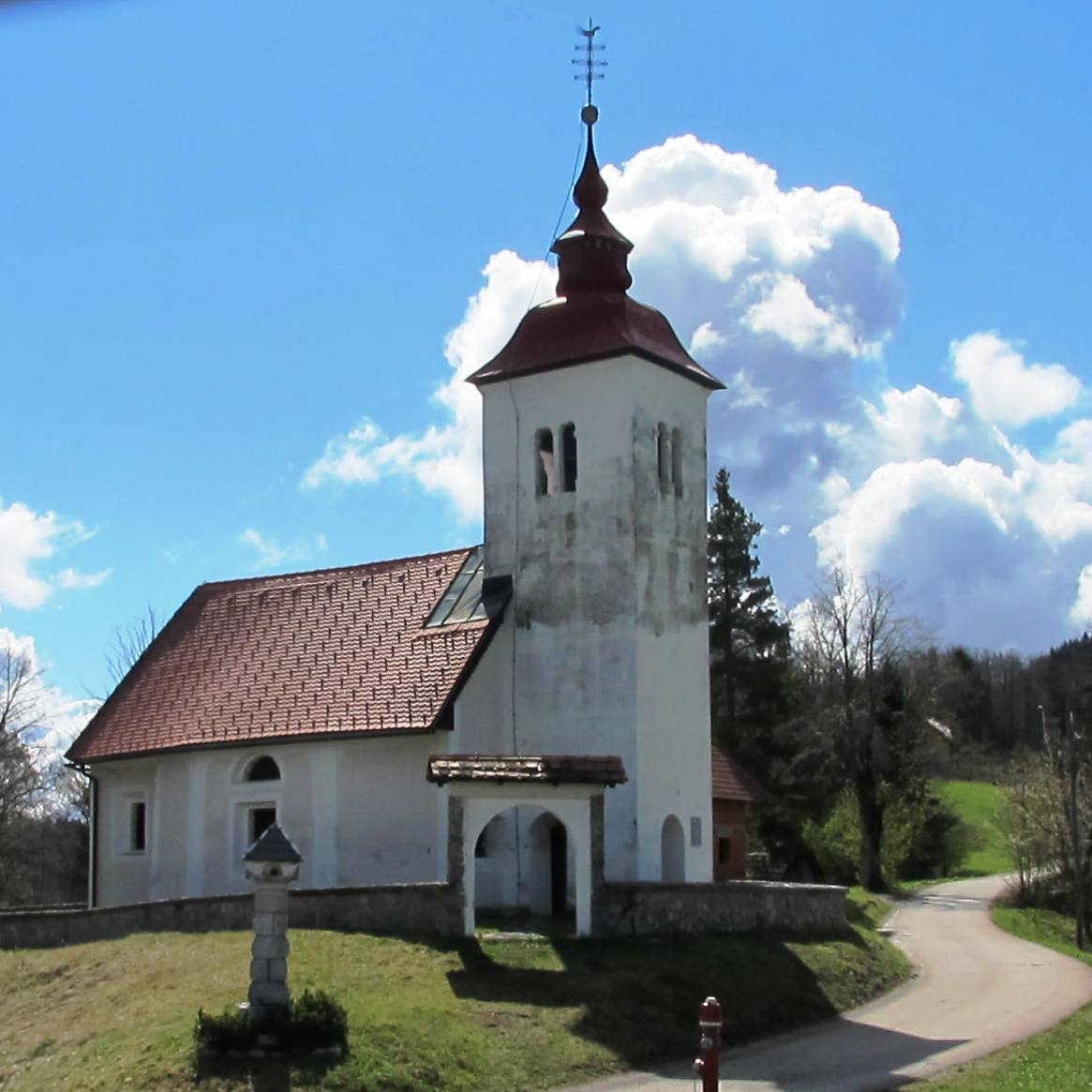 The Church of St. Florian in Tehovec, Municipality of Medvode, Slovenia